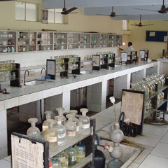 Chemistry lab in Dav Public School Sahibabad